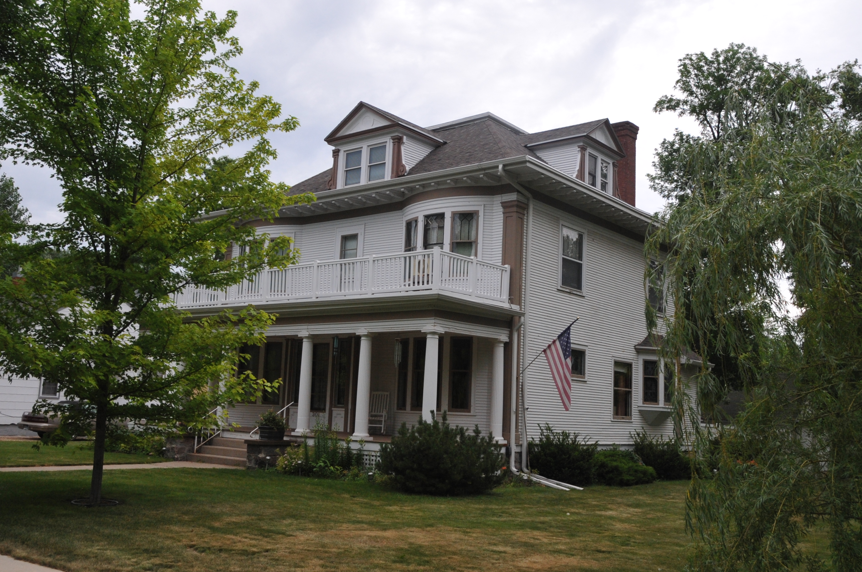 1908 HOME OF GOVERNOR S. H. ELROD IN CLARK, SOUTH DAKOTA’S 5TH GOVERNOR